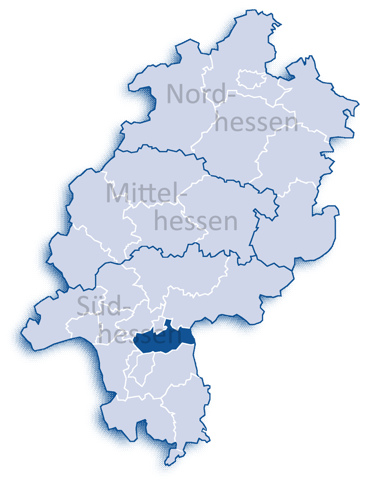 The map shows the district Offenbach. A district in Hesse